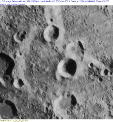 Lagalla lunar crater - image LO-IV-131H